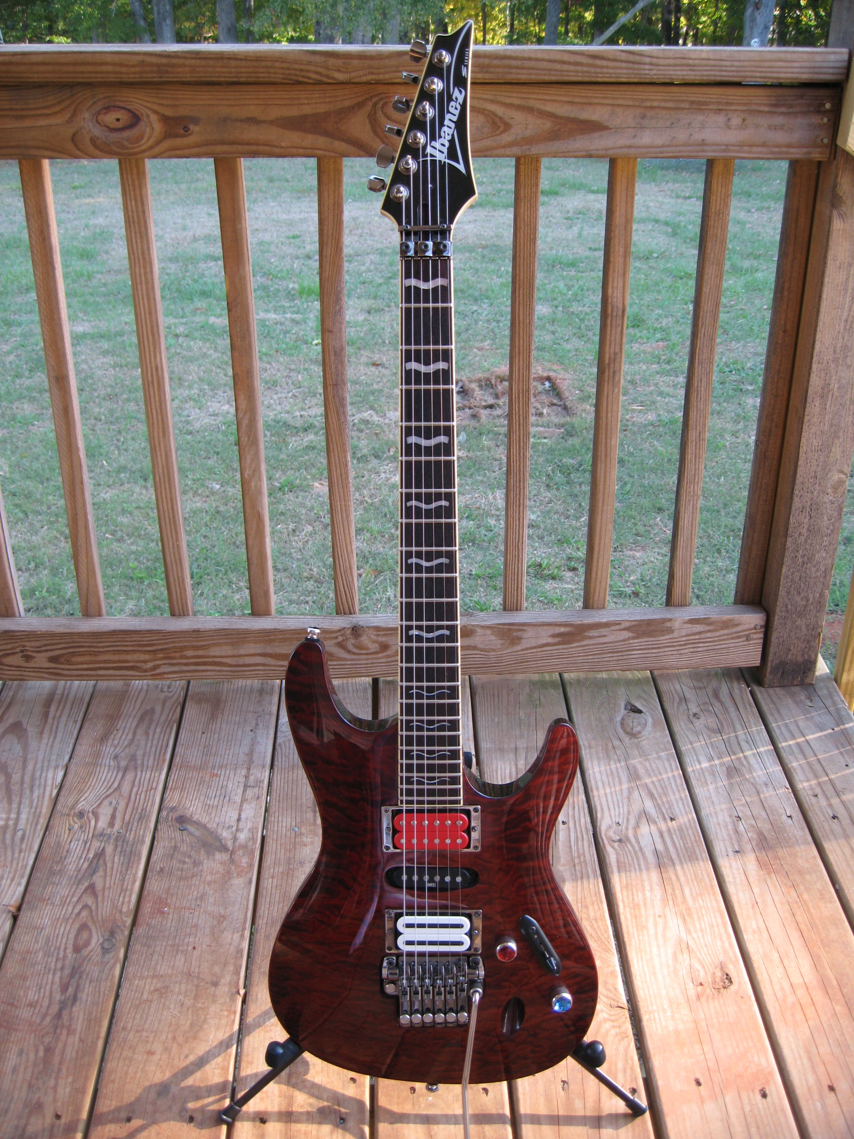 A custom modified 2005 Ibanez S470